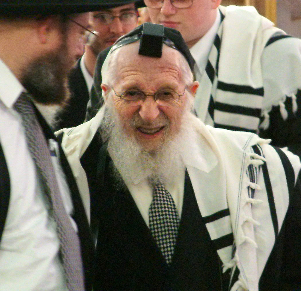 R' Chaim Pinchas Scheinberg exiting a bris mila at Congregation Shaarei Tefiloh in Flatbush, Brooklyn, NY, after being honored with Sandek. April 22, 2004 / Rosh Chodesh Iyyar 5764.